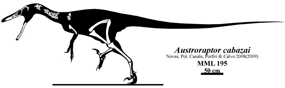 Skeletal reconstruction of Austroraptor cabazai.